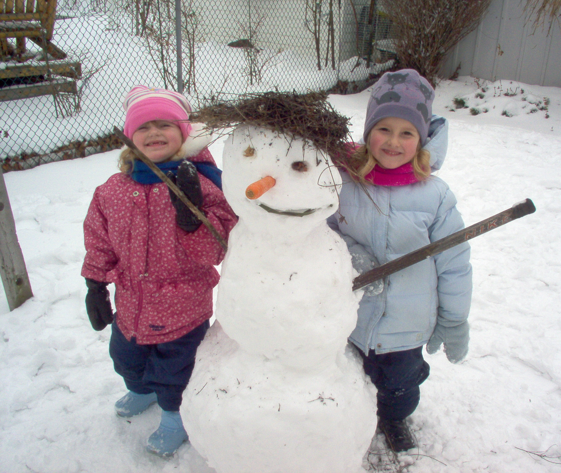 Two girls pose proudly beside their snowman, which has a carrot nose and a full head of twigs.